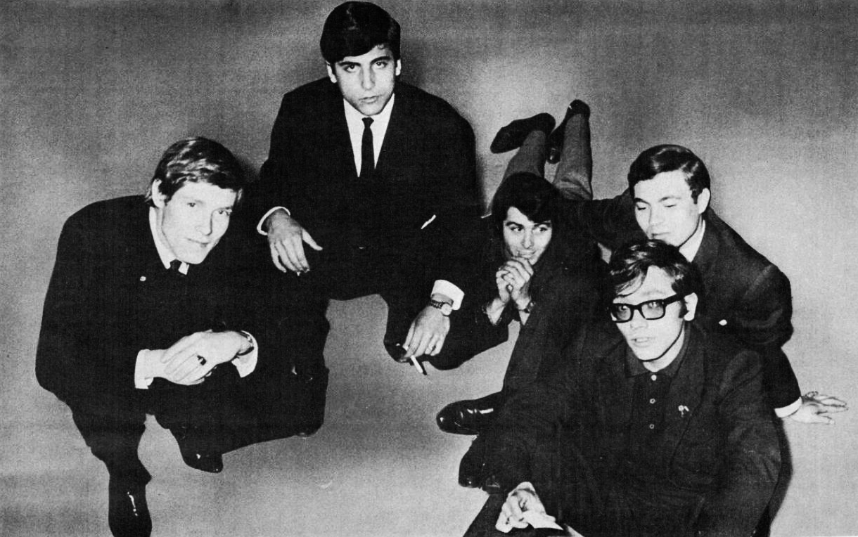 Trade ad for Los Bravos's single "Black Is Black".To better adapt it to his respective Wikipedia article, the ad was cropped and cleaned in a graphics editing program. The original can be viewed at the source below.